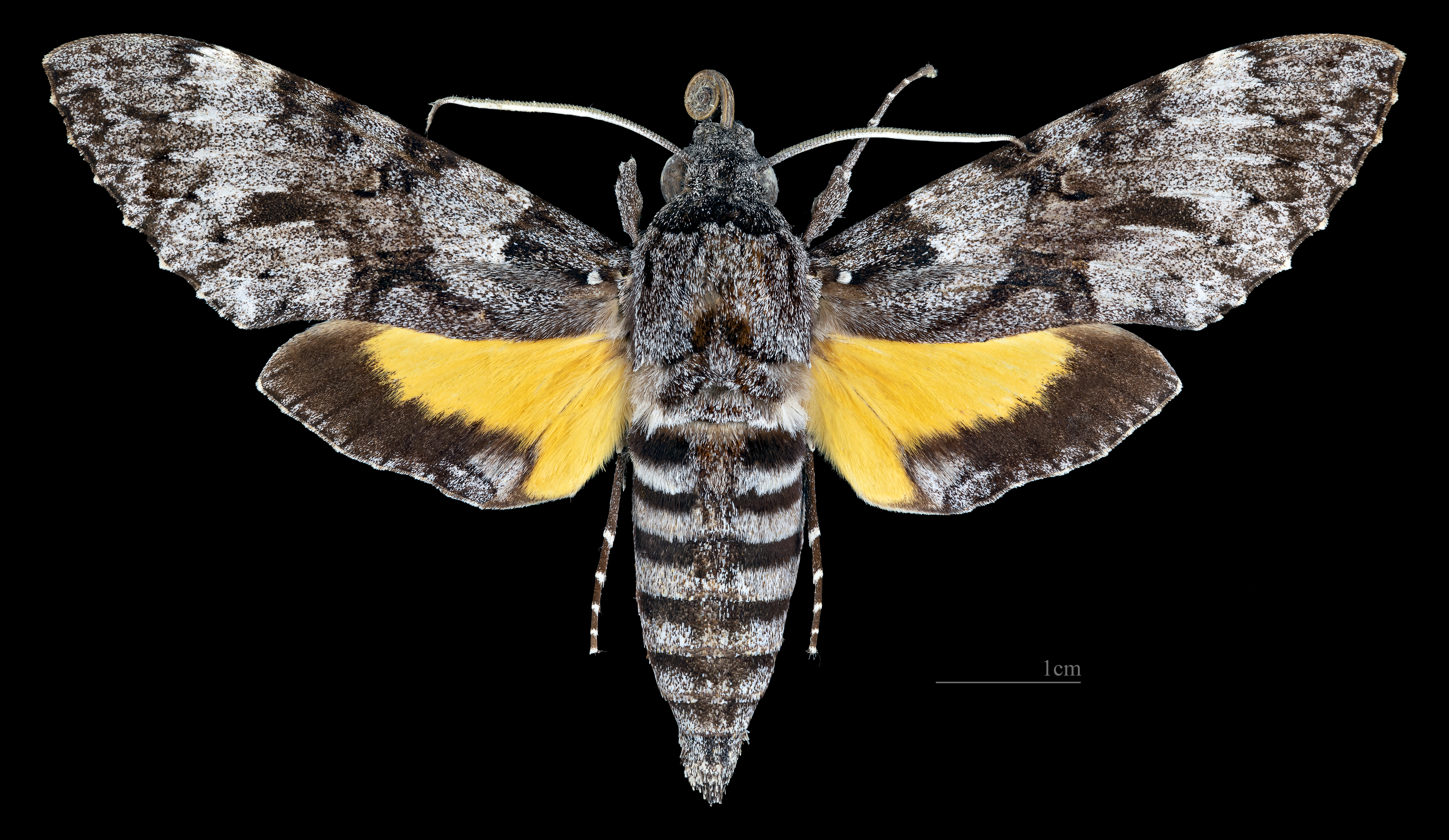 Isognathus menechus - Dorsal side Collection of the Mathematician Laurent Schwartz